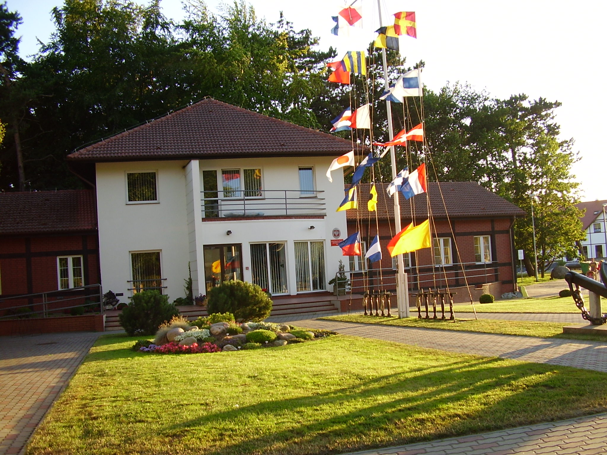 Port Authority in Łeba (Poland)